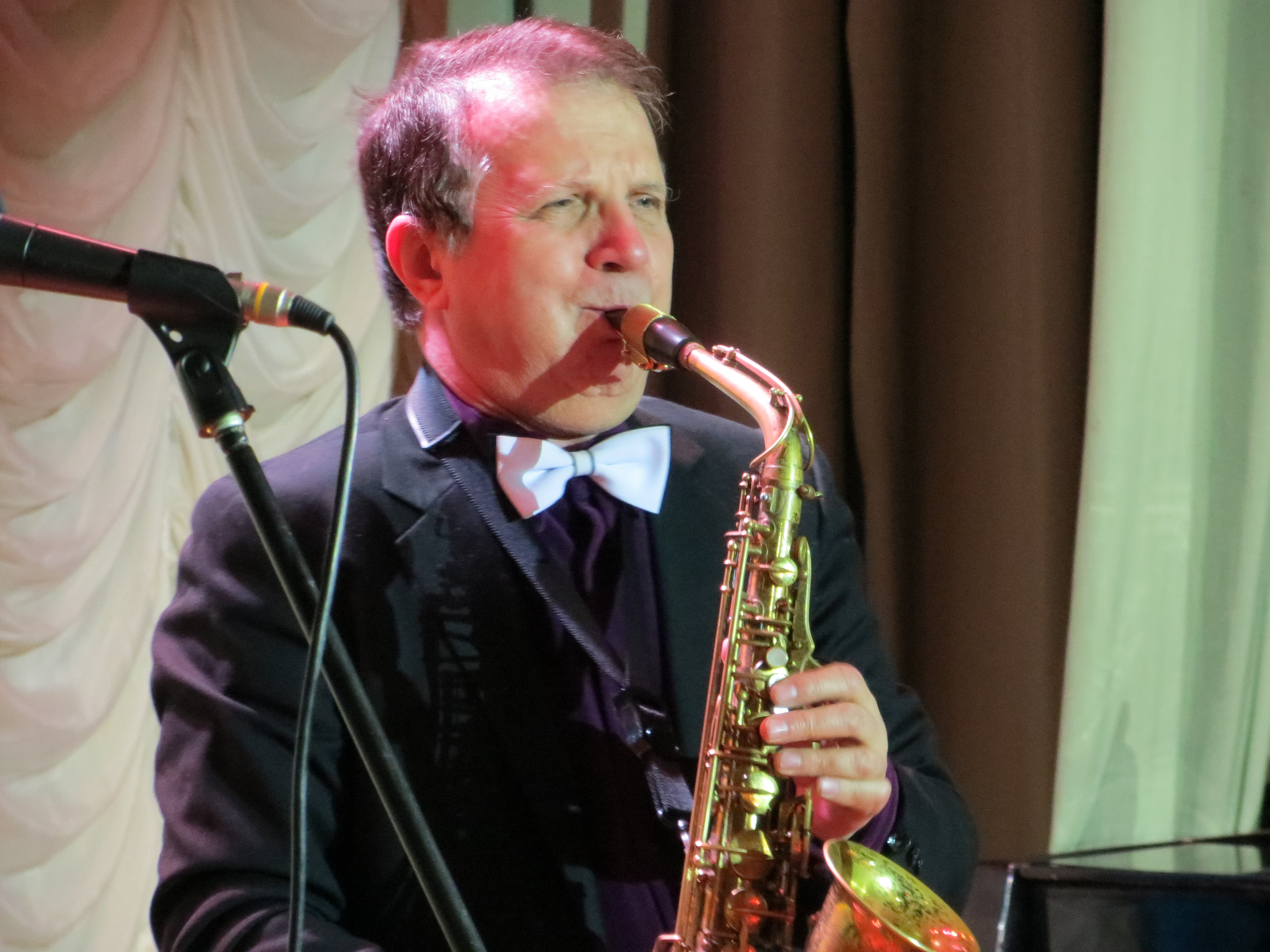 WikiConcert 02 2014 Kyiv